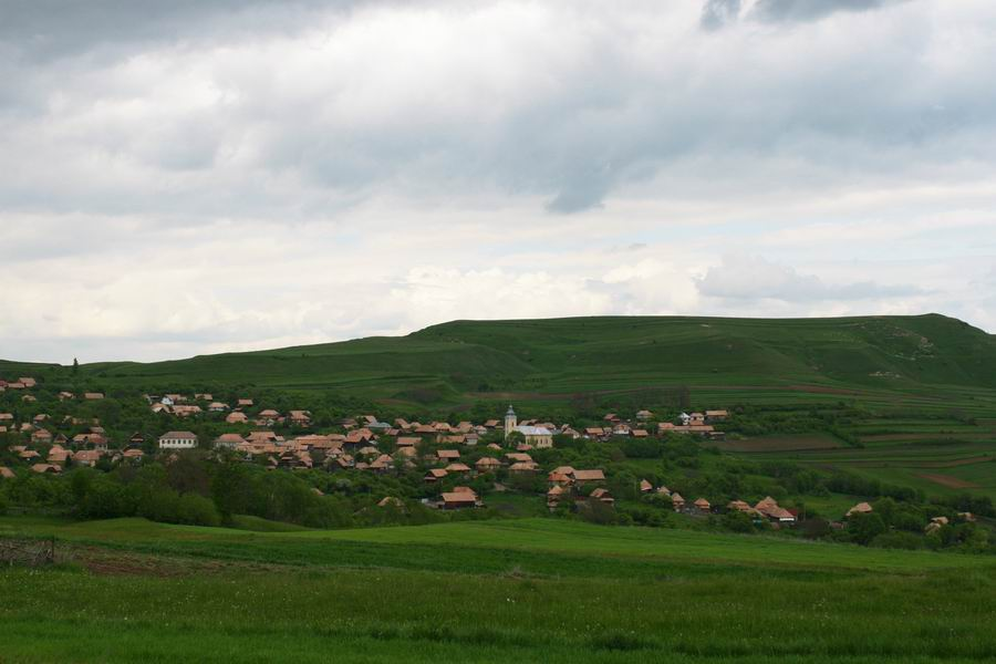 View of Agriş village, Cluj county, Romania